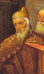 Jacopo Palma il Giovane. Doge Renier Zen and the Endowment of the Crociferi (detail), 1585. Painting, Oratorio dei Crociferi, Venice, Italy.